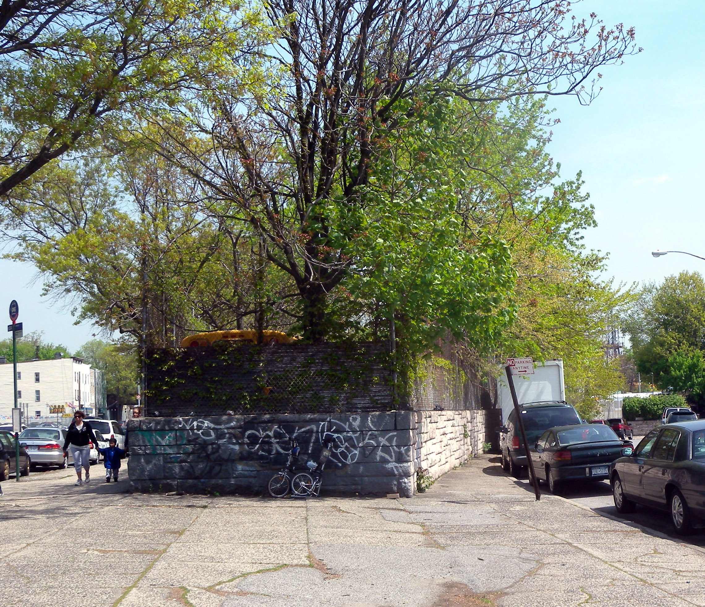 Looking east at wall and fence guarding a schoolbus parking lot, formerly Woodhaven Junction track connecting Atlantic Branch to Rockaway Beach Branch, on a sunny afternoon.